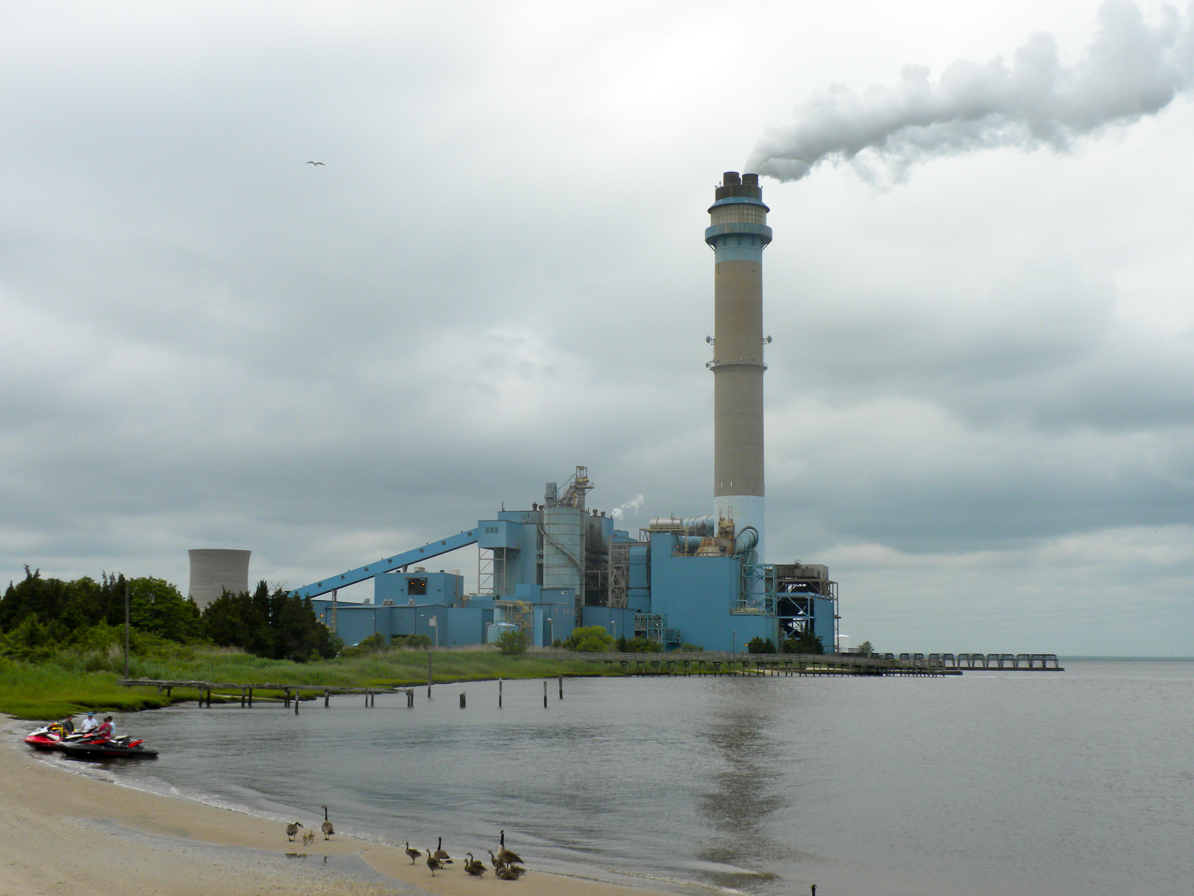 Beesley's Point Generating Station, Upper Township, Cape May County, New Jersey. Burns coal in 2 generators, fuel oil in the third.